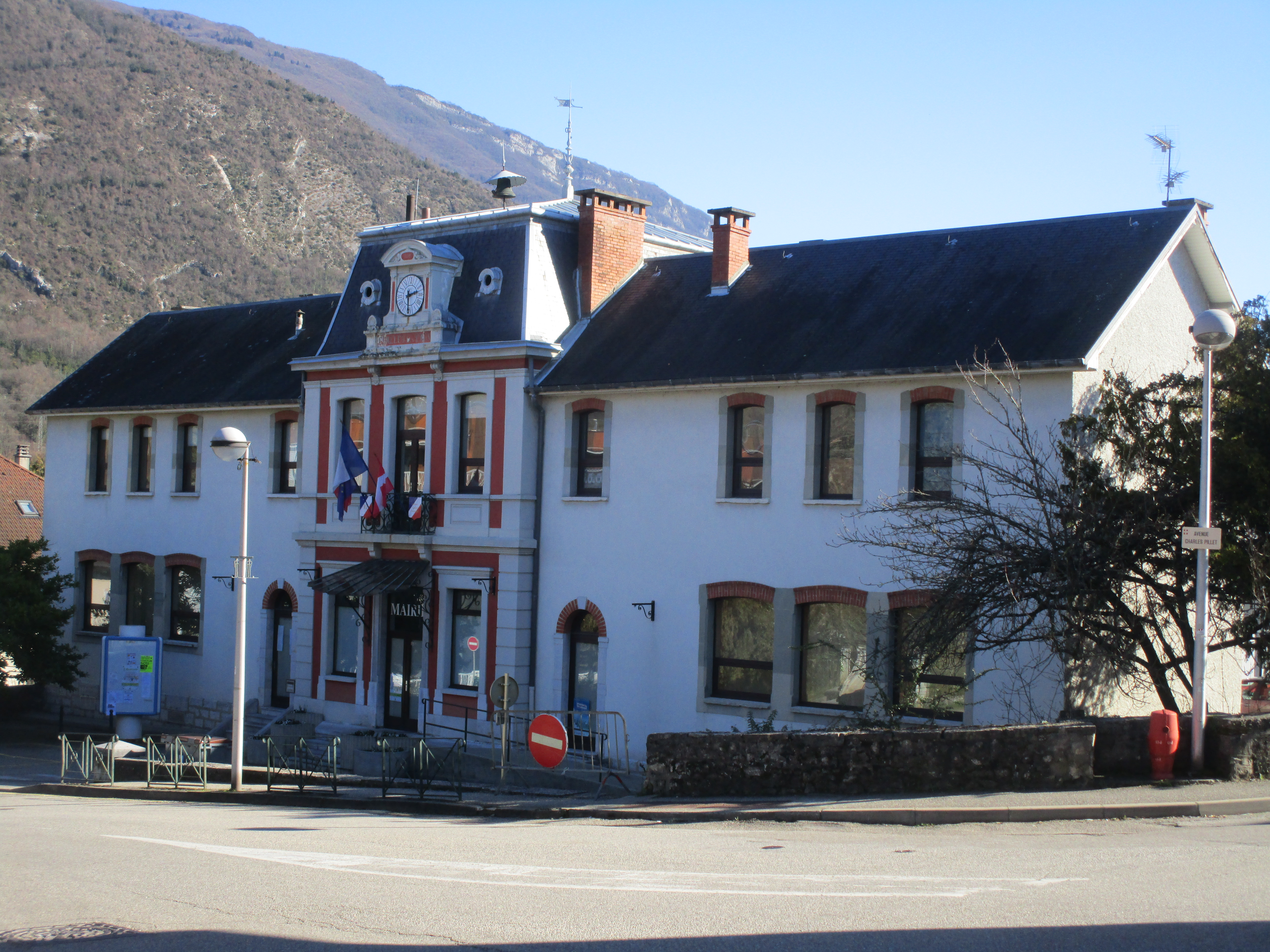 The city hall of Challes-les-Eaux on February 21, 2016.